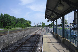 Former Carousel Center station in August 2011